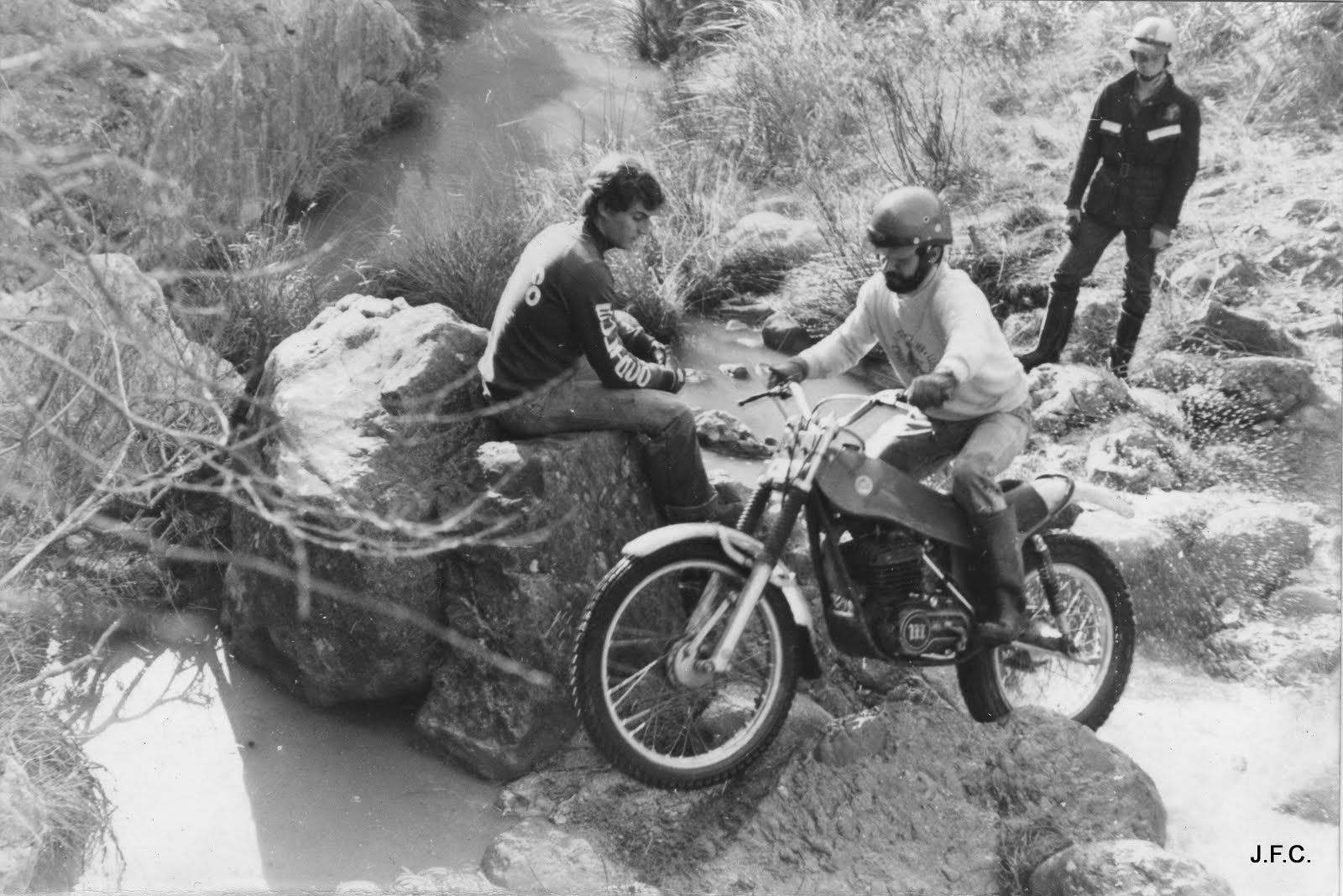 Joan Font training on his Montesa Cota 348 in Gallifa (Catalonia) in November, 1977.